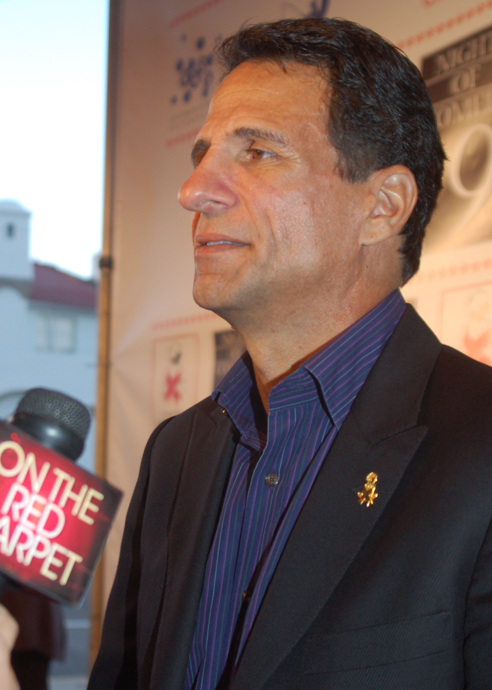 Joe Cristina at the Night of Comedy 9 benefit to support the Children Affected by AIDS Foundation (CAAF) in Beverly Hills, California.